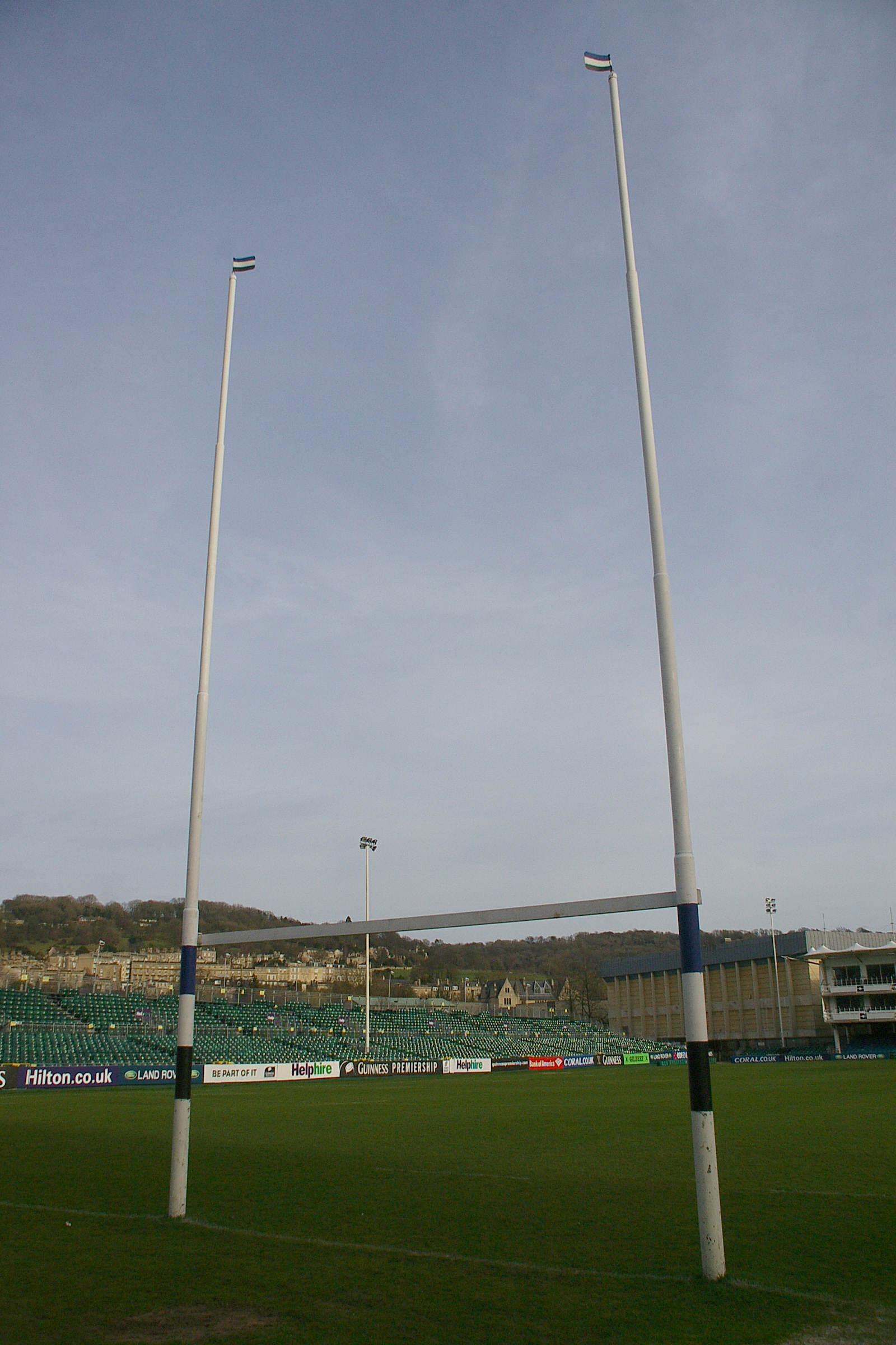 The Bath Recreation Ground.